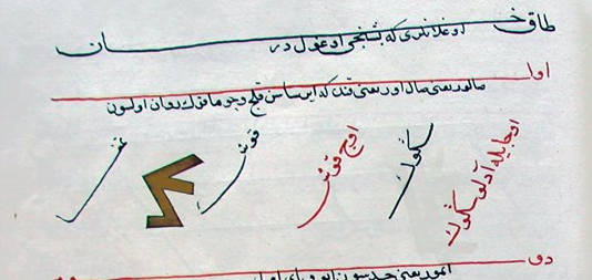 Tamgha of Salar tribe